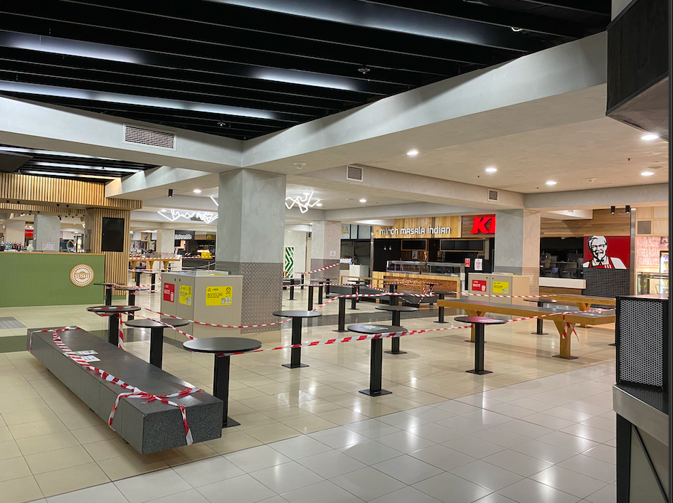 Food court at Adelaide mall closed due to COVID-19